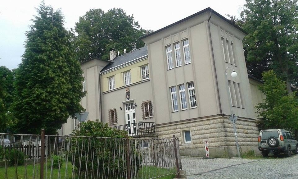 The Villa of Harry Palme